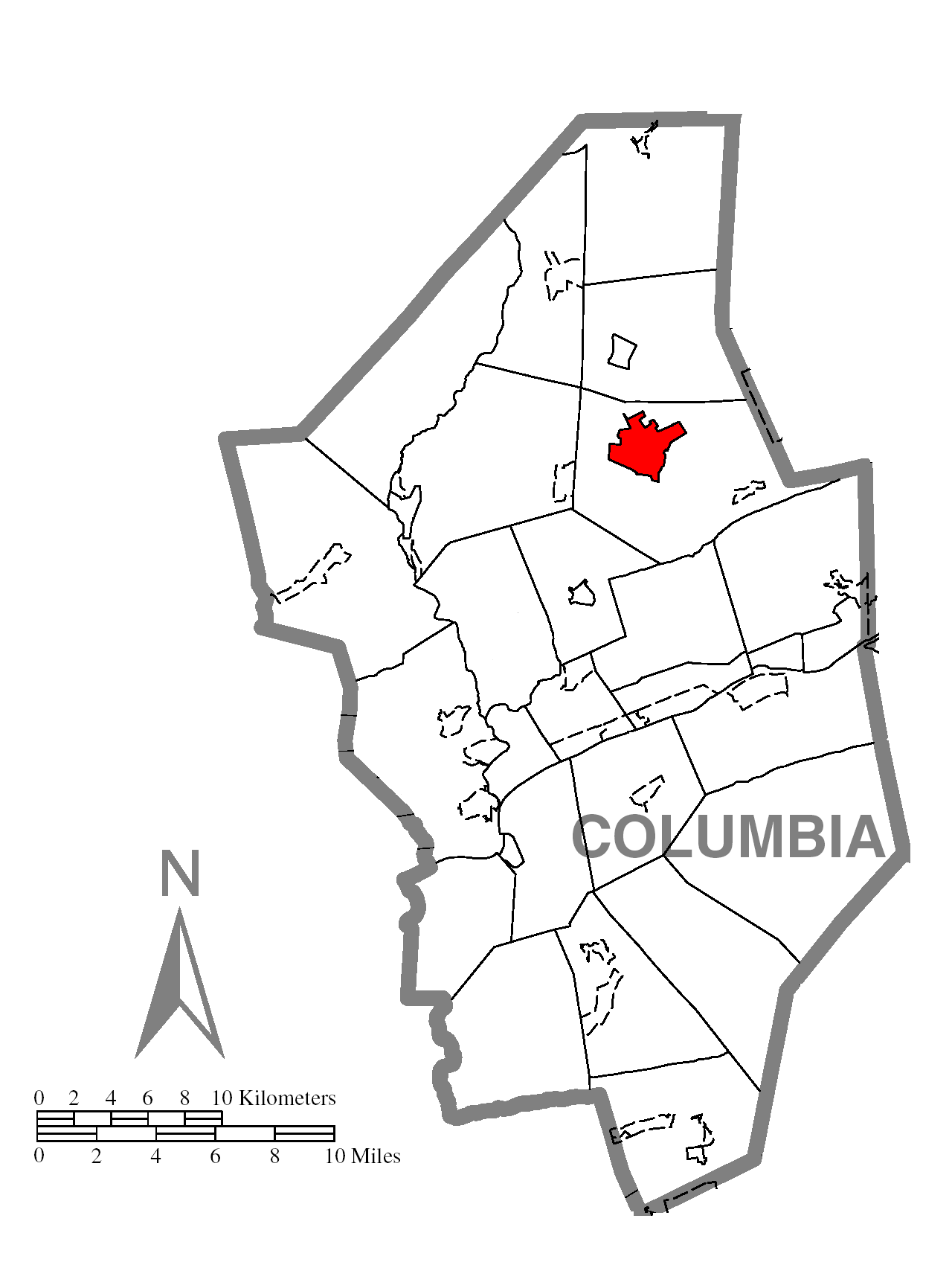 A map of Columbia County showing Stillwater, Pennsylvania (alternate) highlighted on the map.